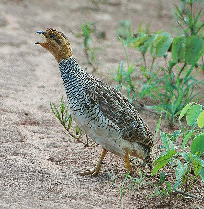 A male Coqui francolin of the pale-bellied race photographed in either Kenya or Tanzania